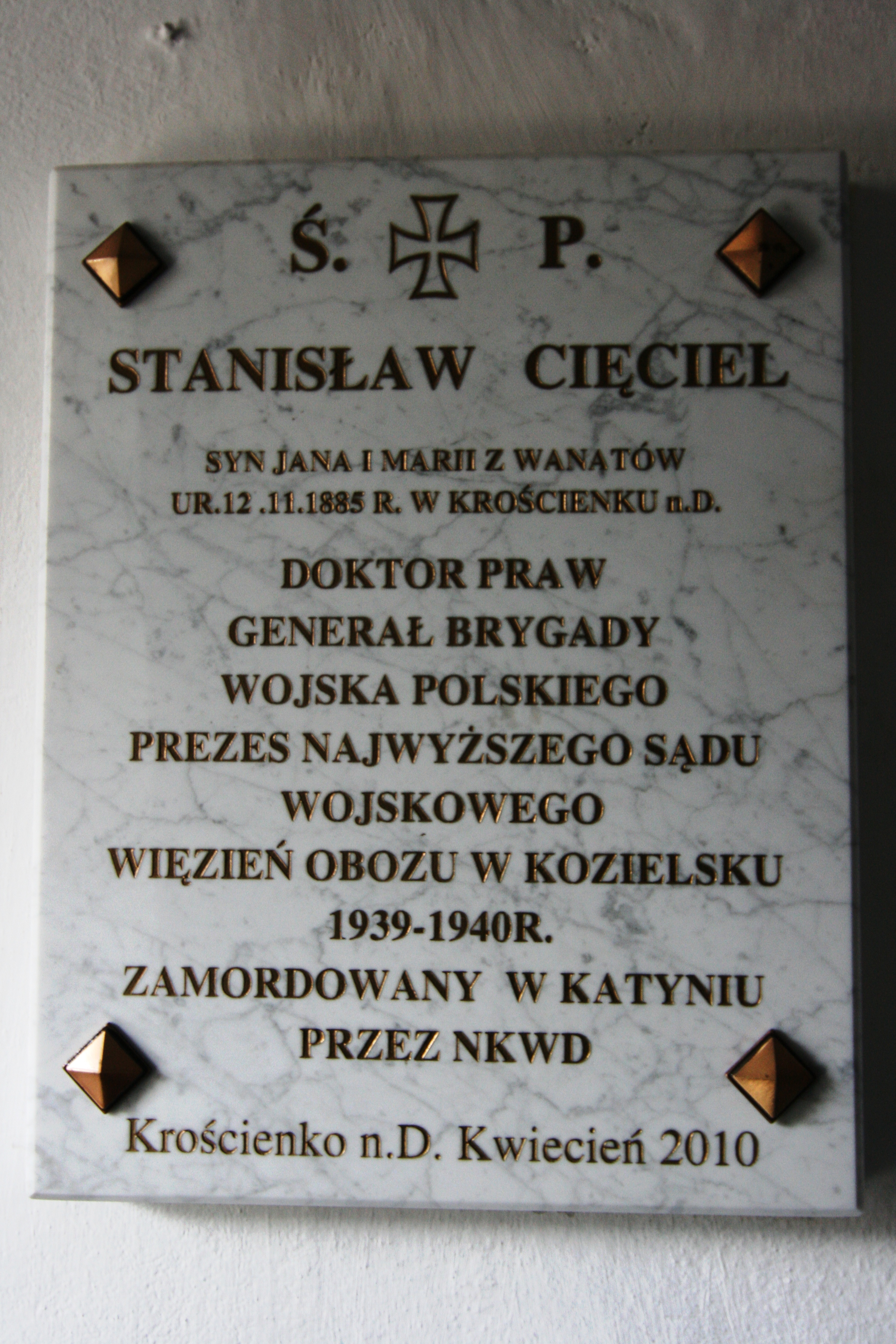 All Saints Church in Krościenko nad Dunajcem (Poland) – commemorative plaque in the church entrance 2